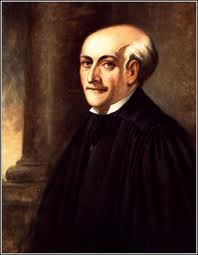 Henry Brockholst Livingston